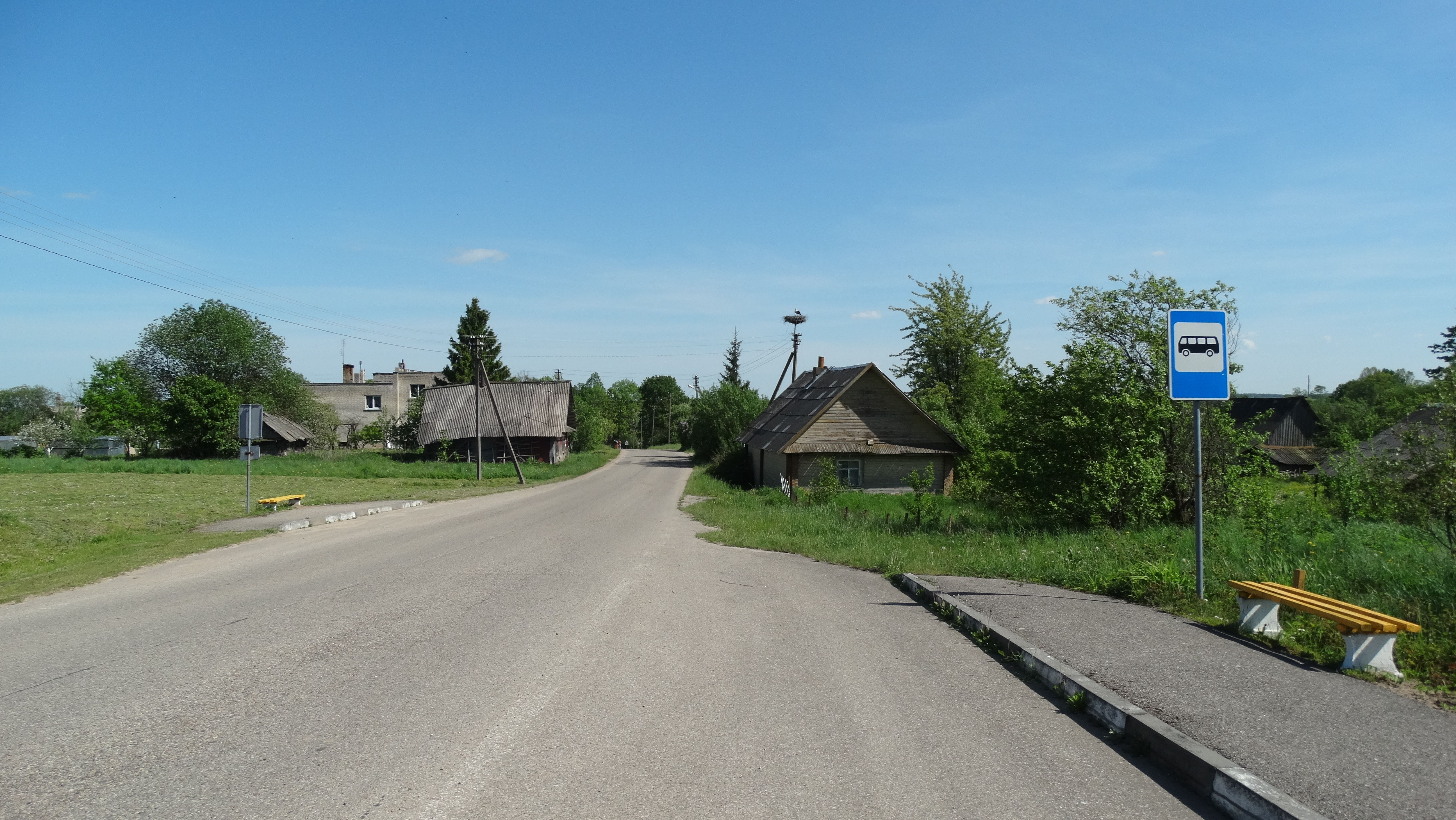 Mikalavas, Ignalina district, Lithuania